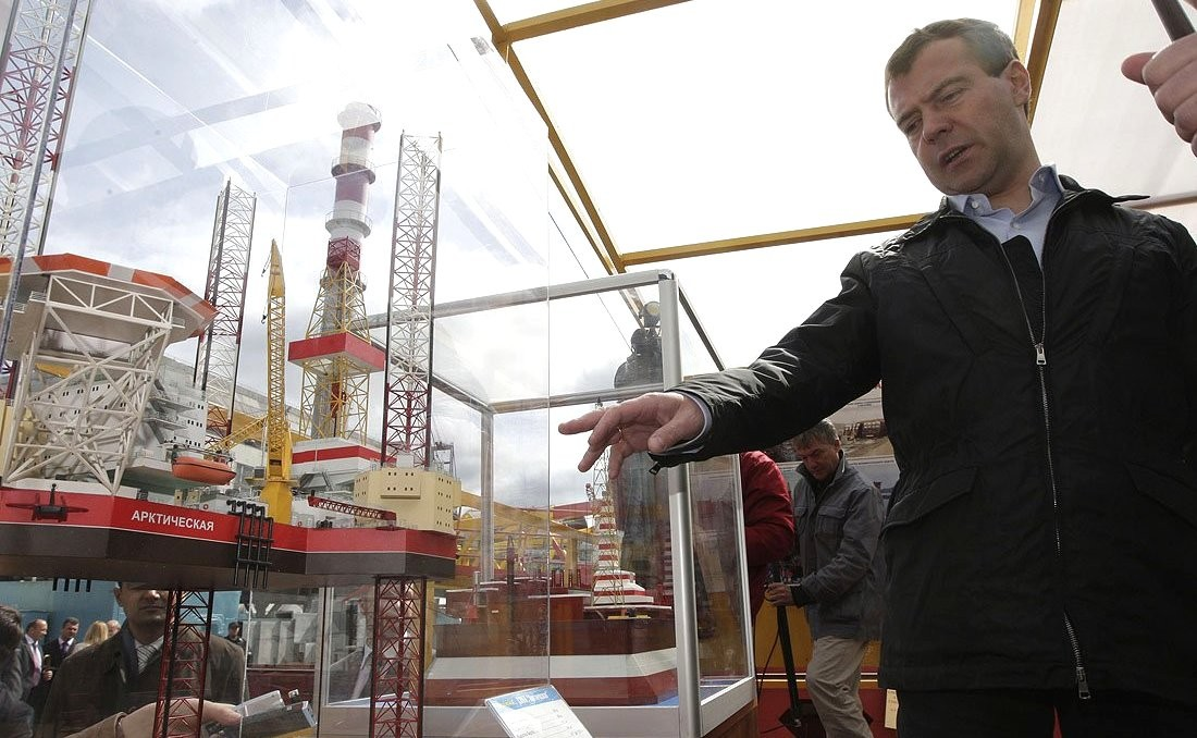 President Dmitry Medvedev with a model of Prirazlomnaya, an off-shore ice-resistant stationary platform being built by Sevmash. July, 2009.